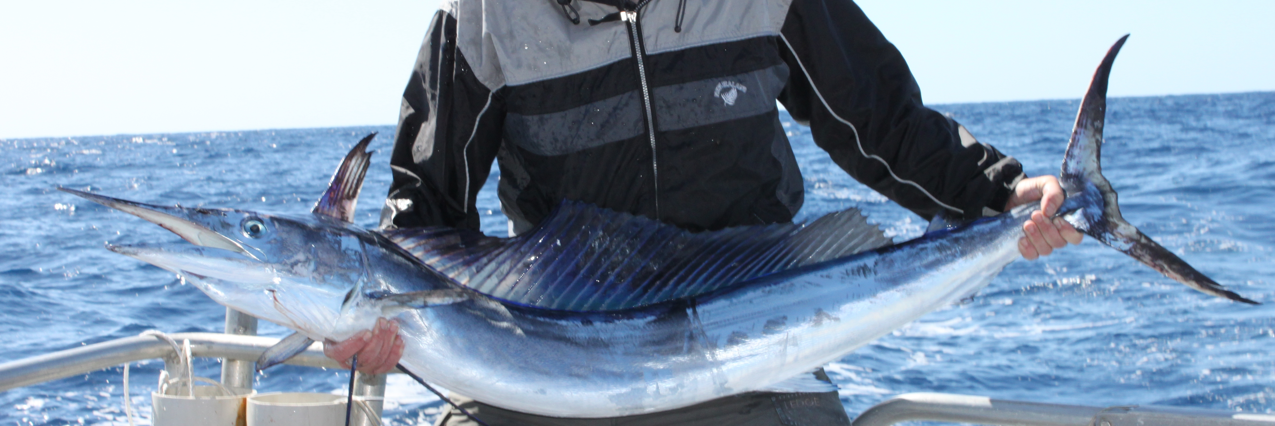 Short-bill Spearfish caught off Great Barrier Island, New Zealand, in March 2010. This fish weighed 11.35kg. This species is occasionally caught around New Zealand in the game fishing season (February to May) but is relatively uncommon.